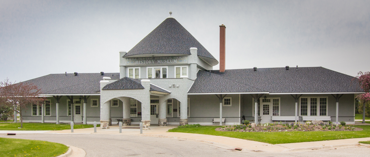 The Little Traverse History Museum, housed in the former Chicago and West Michigan Railroad depot (also the Chesapeake and Ohio Railway Station), Petoskey, MI.